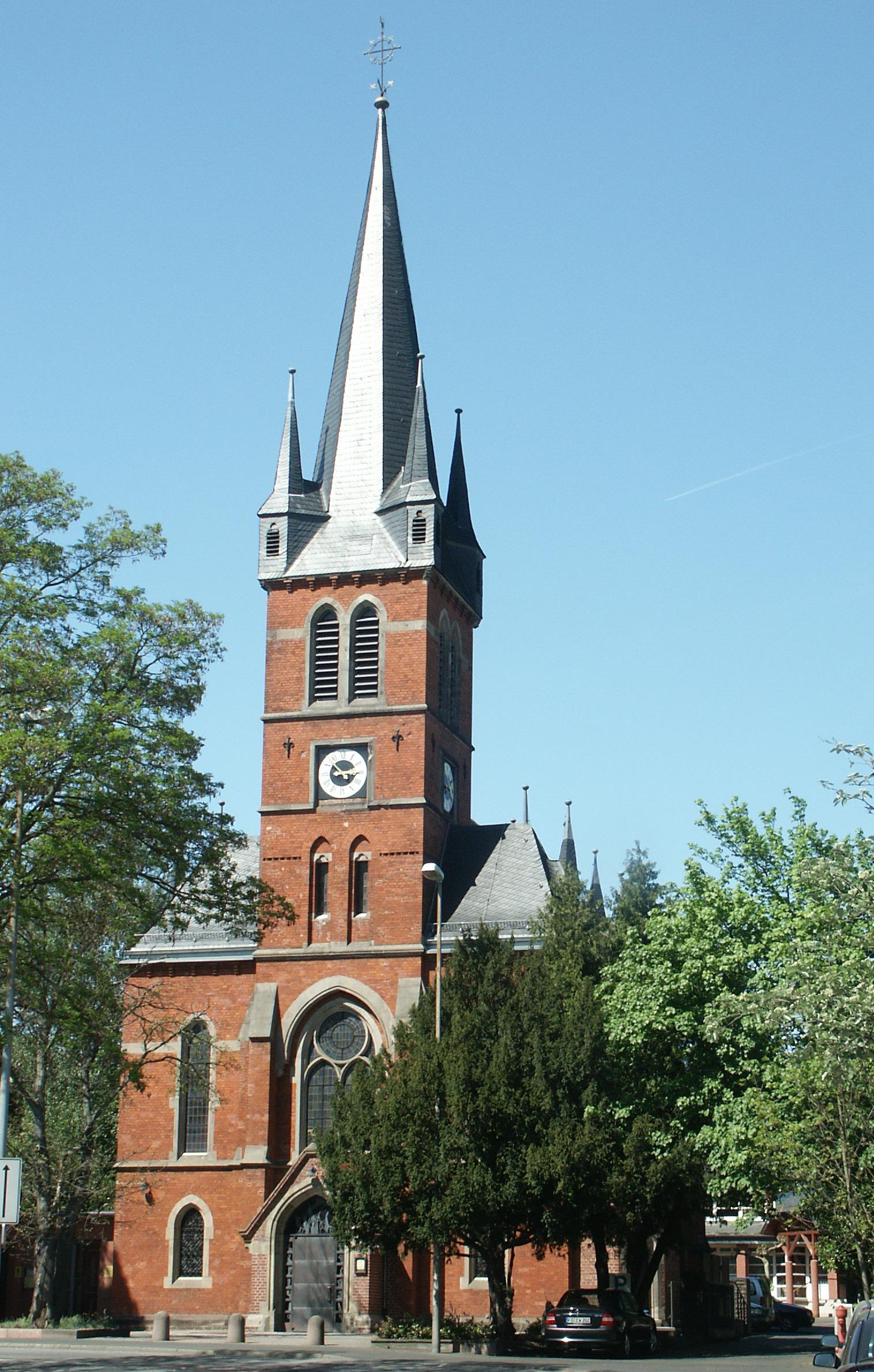 Roman Catholic Church St. Lullus-Sturmius